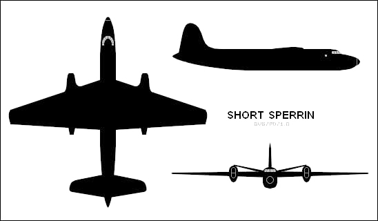 orthogonal silhouette views of Short Sperrin; source states that it is in the public domain Please check the Original Source website before deleting